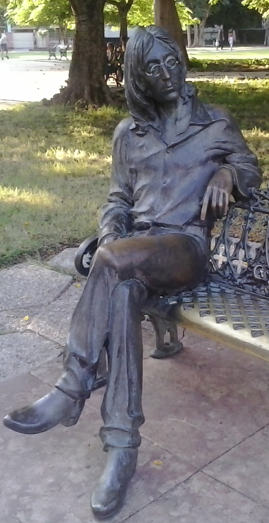 John Lennon statue in Havana City